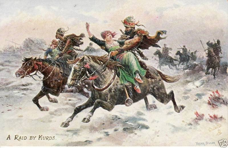 A raid by Kurds.Vintage original old photo postcard.Life in Russia (Caucasus) II Kurdî: Serdegirtinek ji aliyê Kurdan ve.